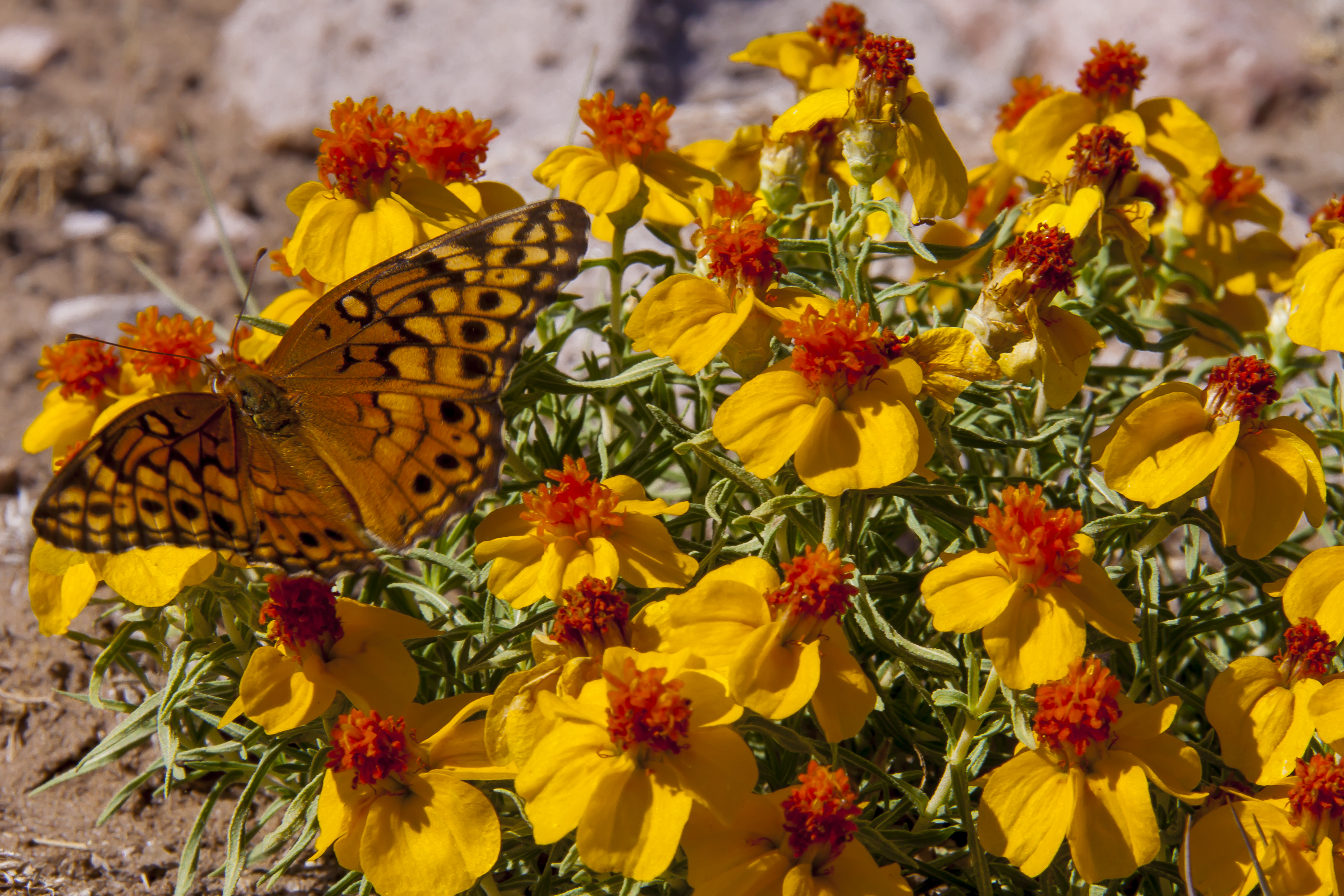 Butterfly on Desert zinnia, Las Uvas Mountains WSA Location: Eight miles northwest of Las Cruces